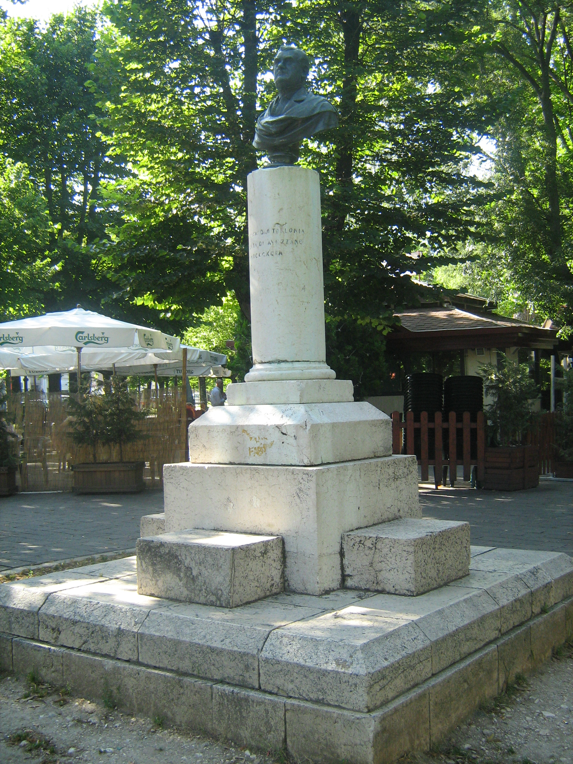 Prince Alessandro Torlonia, Torlonia Square, Avezzano